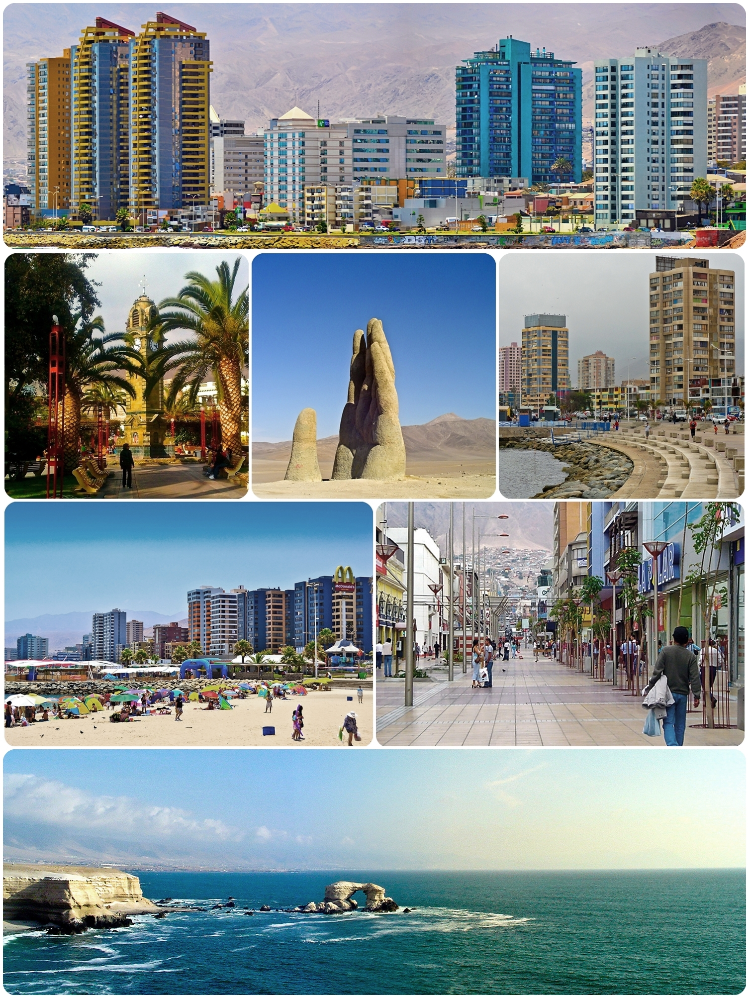 Montage of Antofagasta city images.